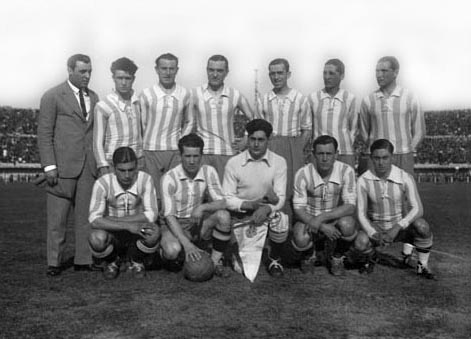 Argentina national football team in July 1930, during the World Cup in Uruguay, before playing the match against Mexico. Back row, l-r: Francisco Olazar (coach), Carlos Peucelle, José Della Torre, Adolfo Zumelzú, Fernando Paternoster, Alberto Chividini, Rodolfo Orlandini; Front row, l-r: Francisco Varallo, Guillermo Stábile, Ángel Bossio, Attilio Demaría, Carlos Spadaro.